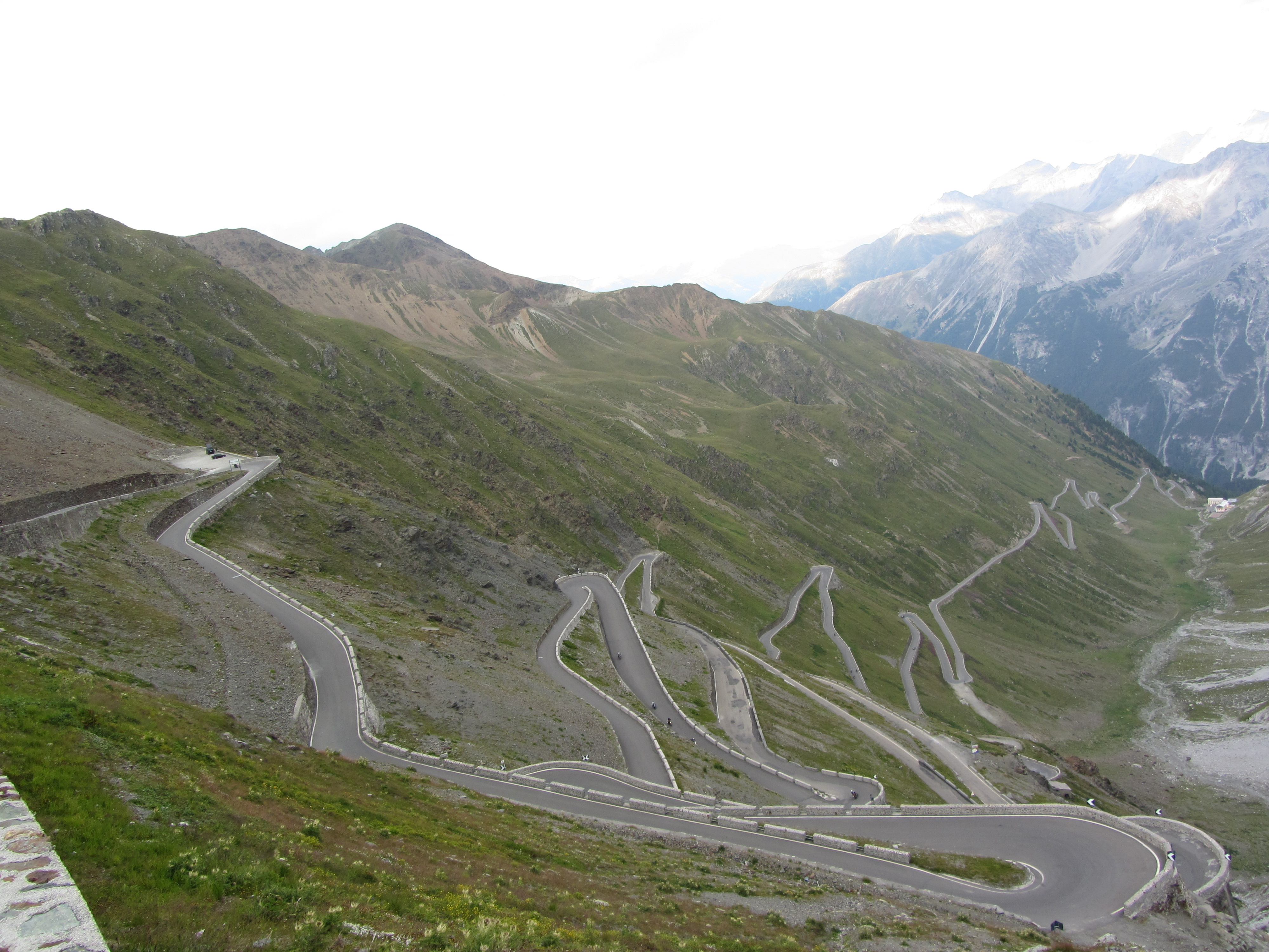 The view from the top of the Stelvio Pass of the first half of the Stelvio Pass